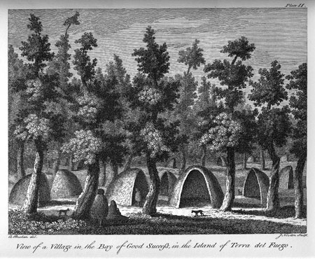 This is an image of a print entitled "View of a Village in the Bay of Good Success, in the Island of Terra del Fuego" by Sydney Parkinson.